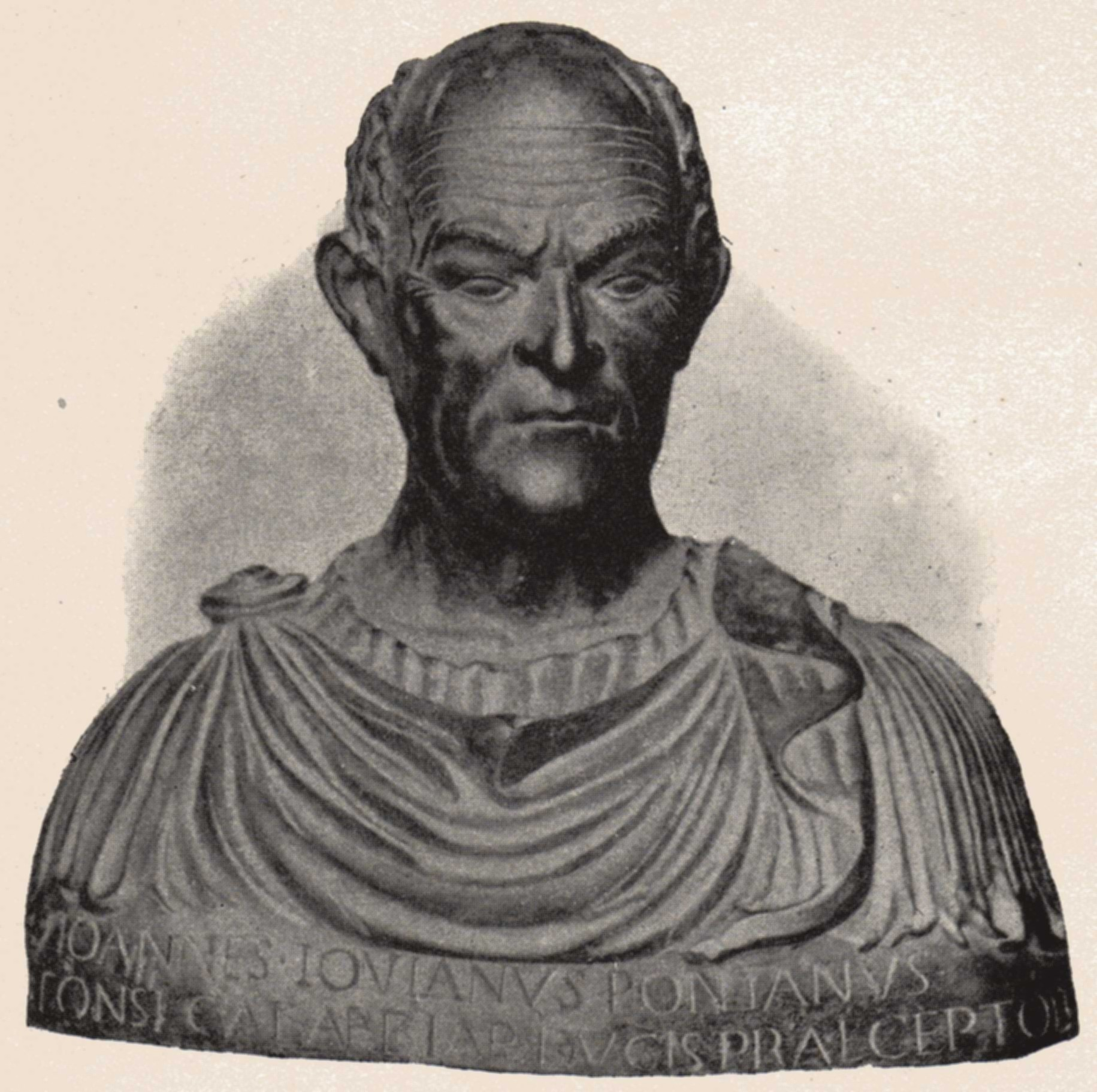 bust of Jovianus Pontanus